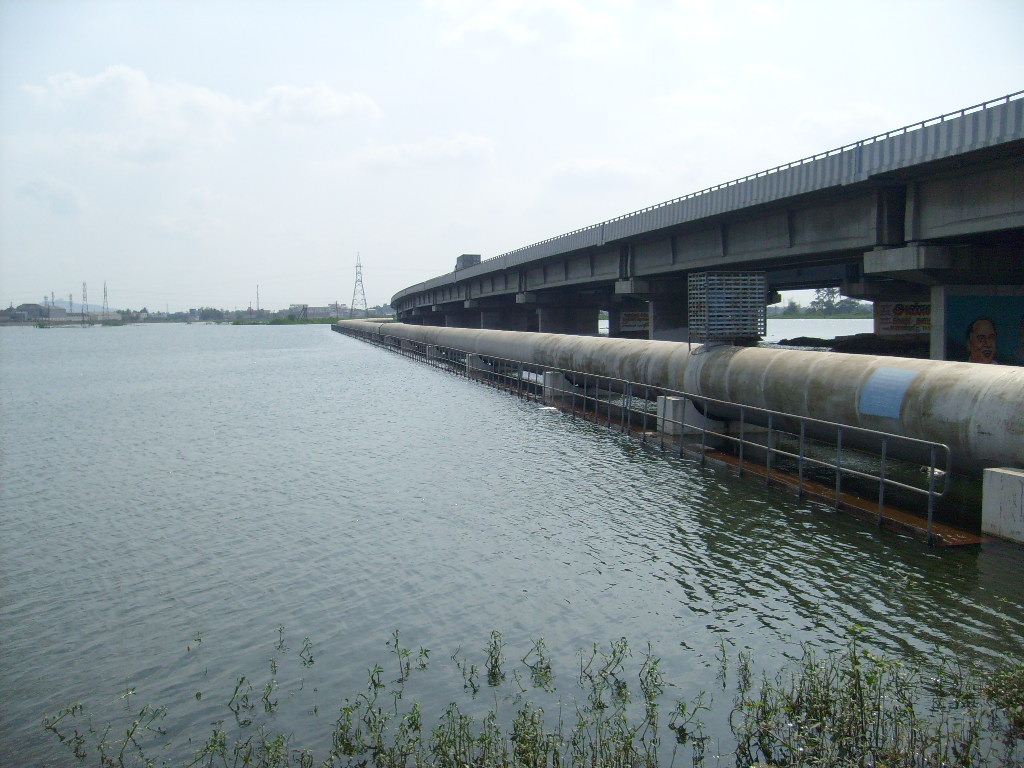 Porur Lake with flyover in the background